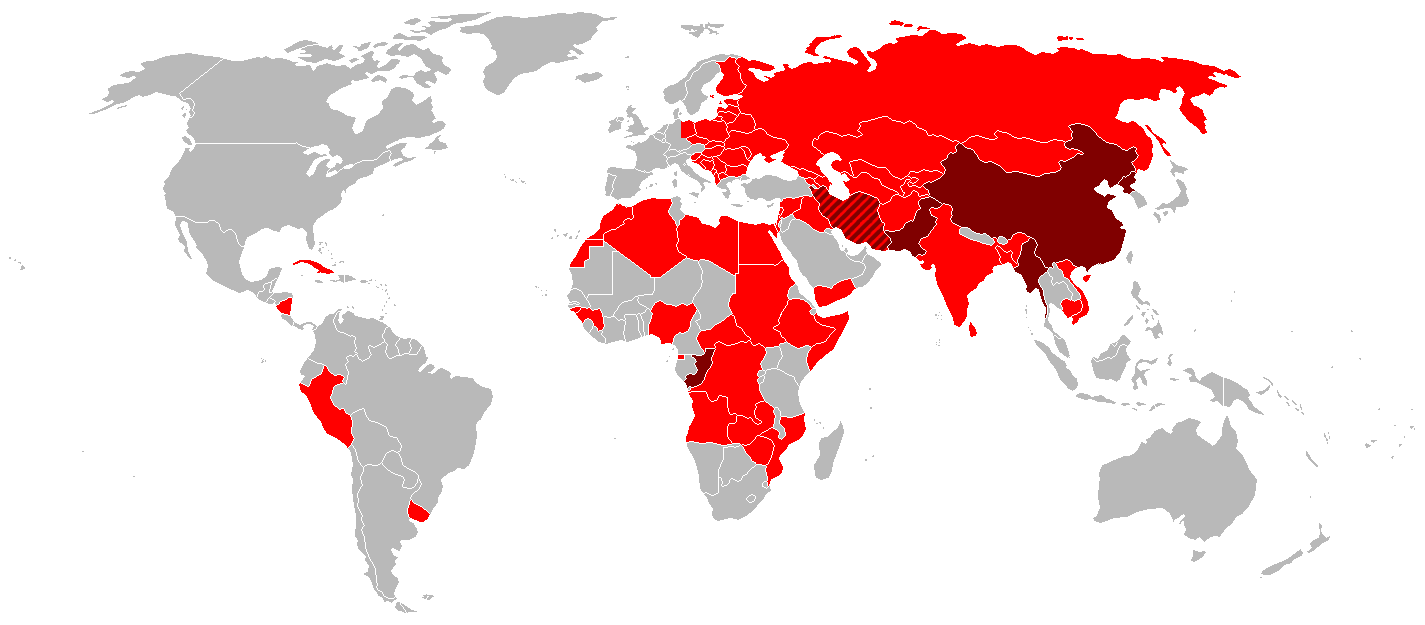 derived from world map